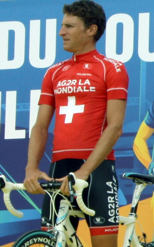 Martin Elmiger at the team presentation of the 2010 Tour de France in Rotterdam